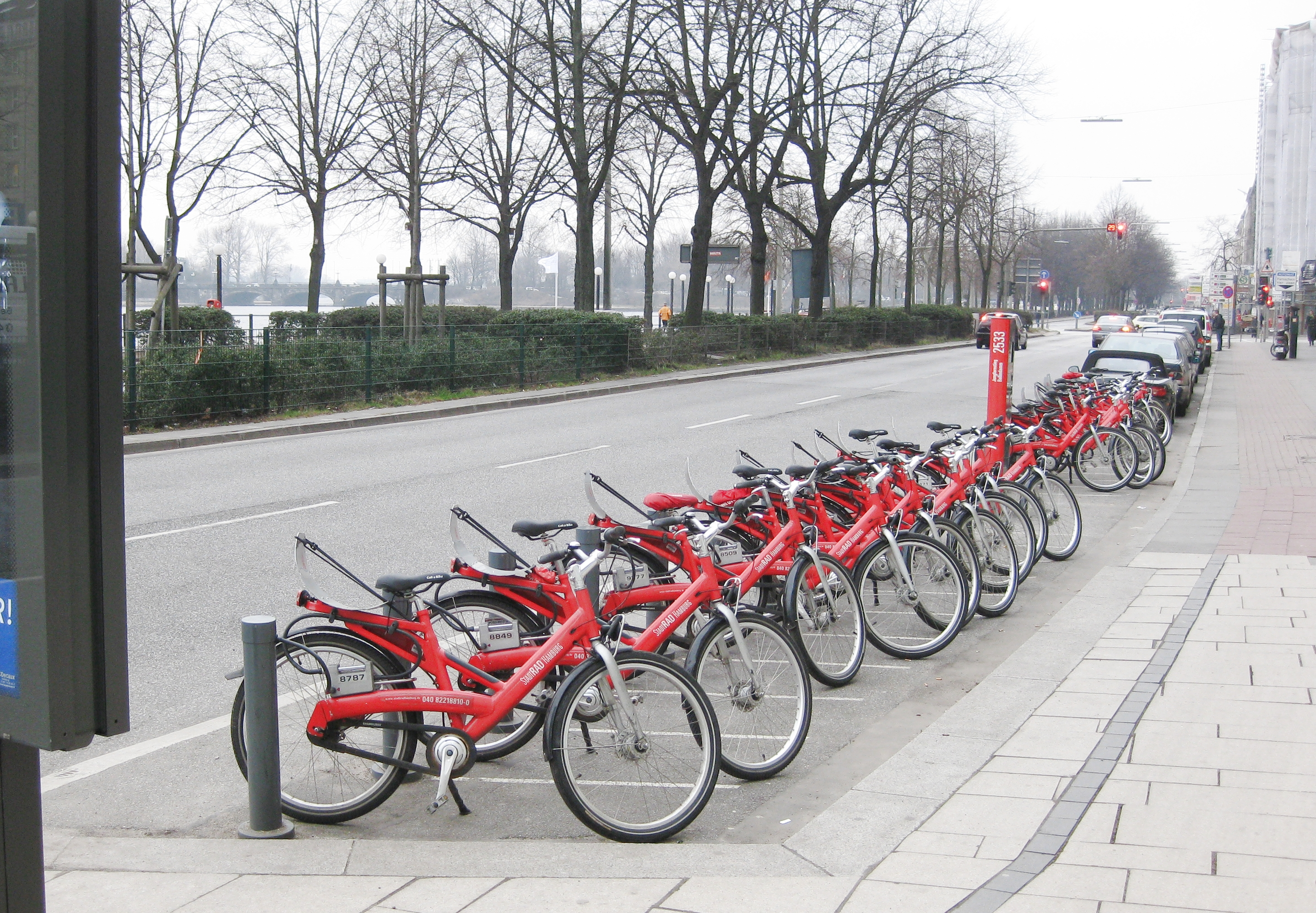 Bicycle to rent (StadtRad Hamburg); station in Hamburg, germany.